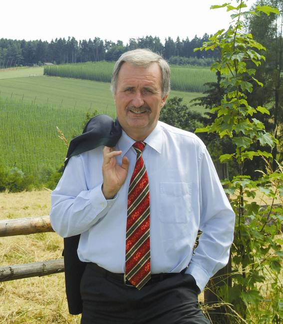 Bavarian politician Max Weichenrieder